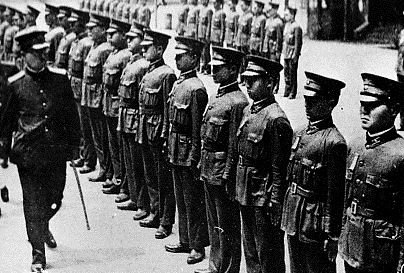 Shonen-Keisatsukan(Child Policemen)